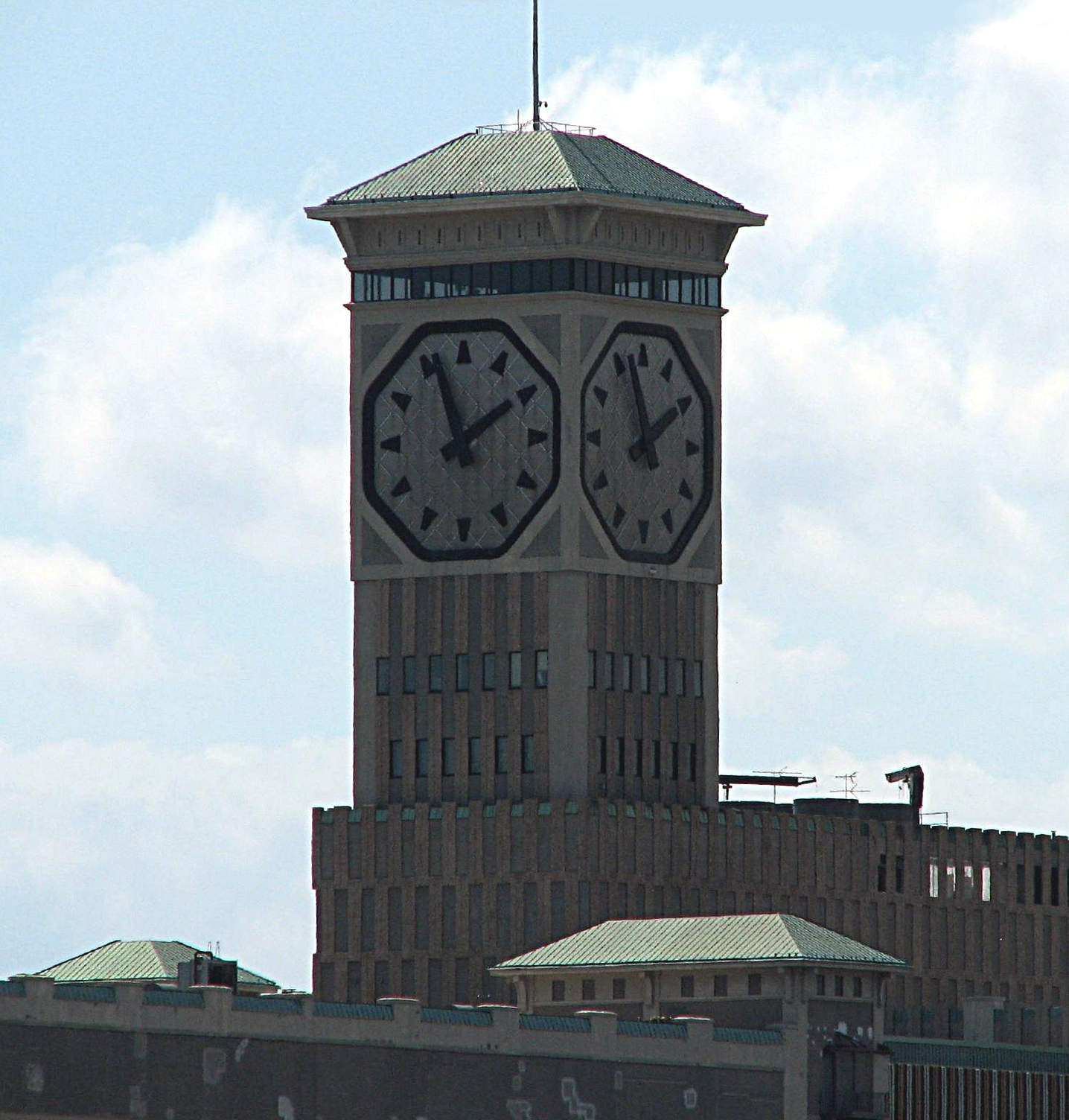 Allen-Bradley Clock Tower